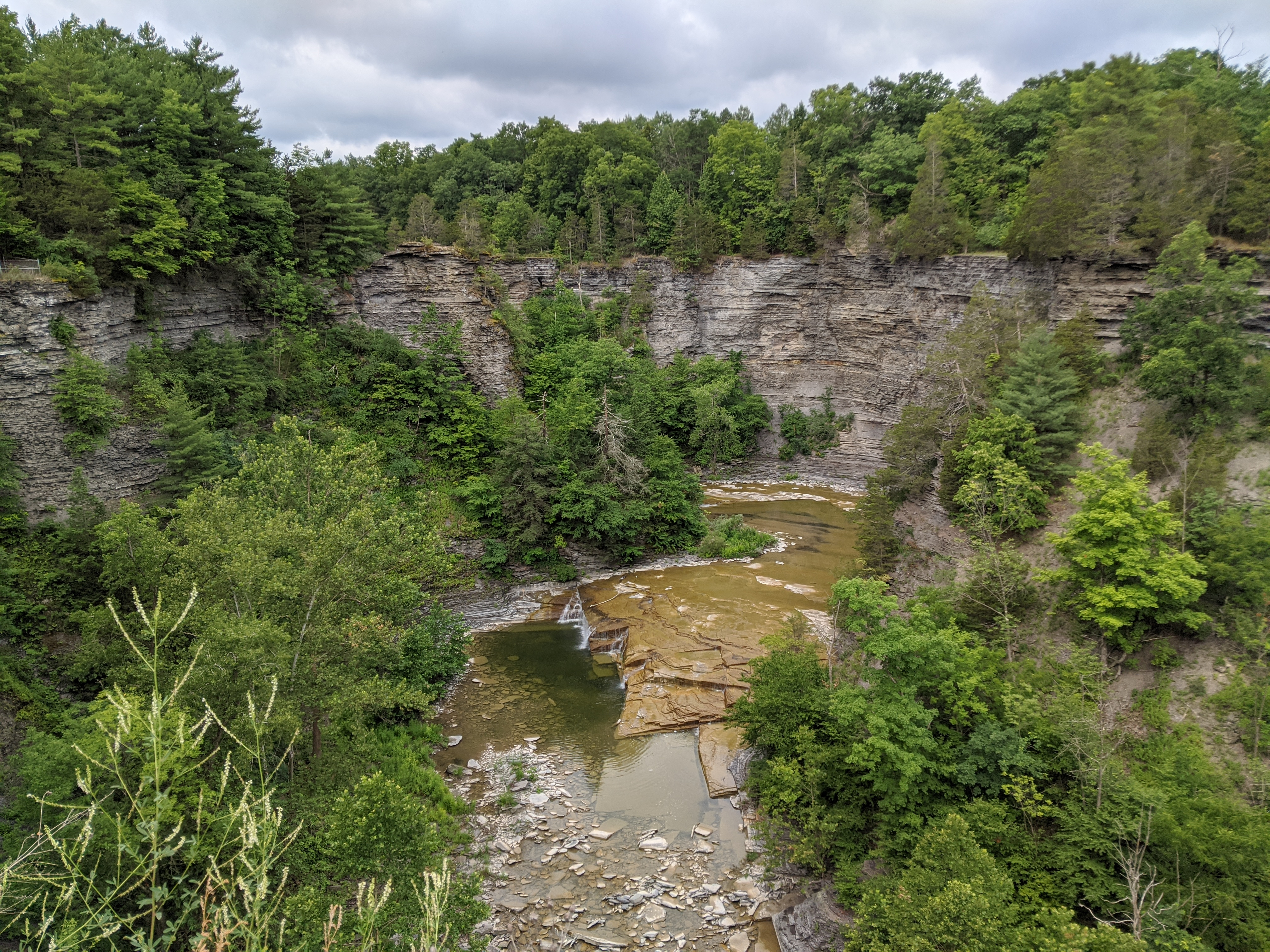 Taughannock Creek upstream of Taughannock Falls in Taughannock Falls State Park, New York.